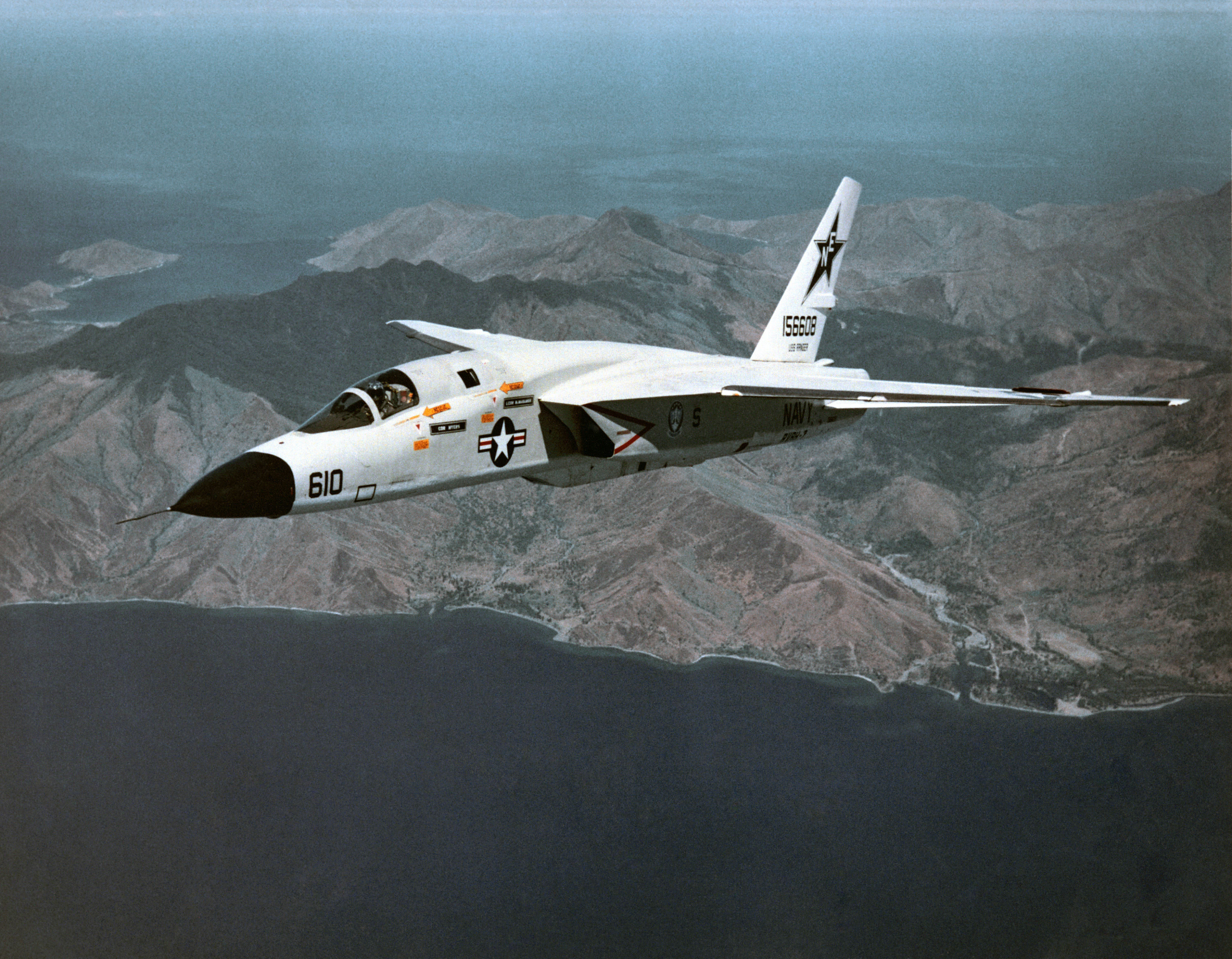 A three-quarter port aerial view of an RA-5C (BuNo 156608) Vigilante aircraft, Reconnaissance Attack Squadron 7 (RVAH-7) known as the "Peacemakers of the Fleet" and was assigned to the USS Ranger (CV-61) and Carrier Air Wing Two (CVW-2) from February 21 to September 22, 1979. This photograph may show the Vigilante's last flight, since all Vigilante aircraft were officially retired in September 1979 and the RVAH-7 was officially decommissioned in October 1979. The exact date the photo was taken is unknown.